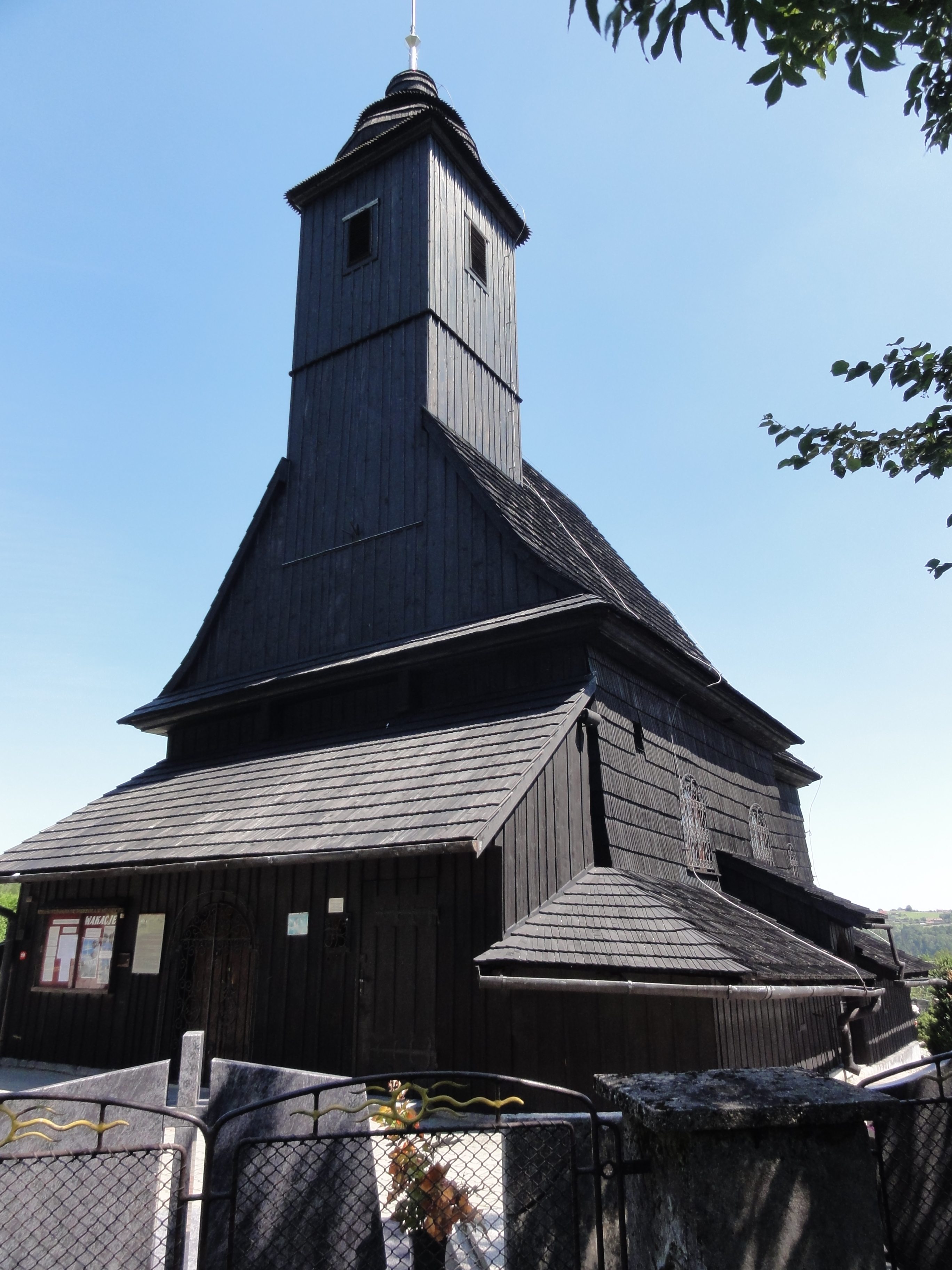 Saint Lawrence church in Bielowicko